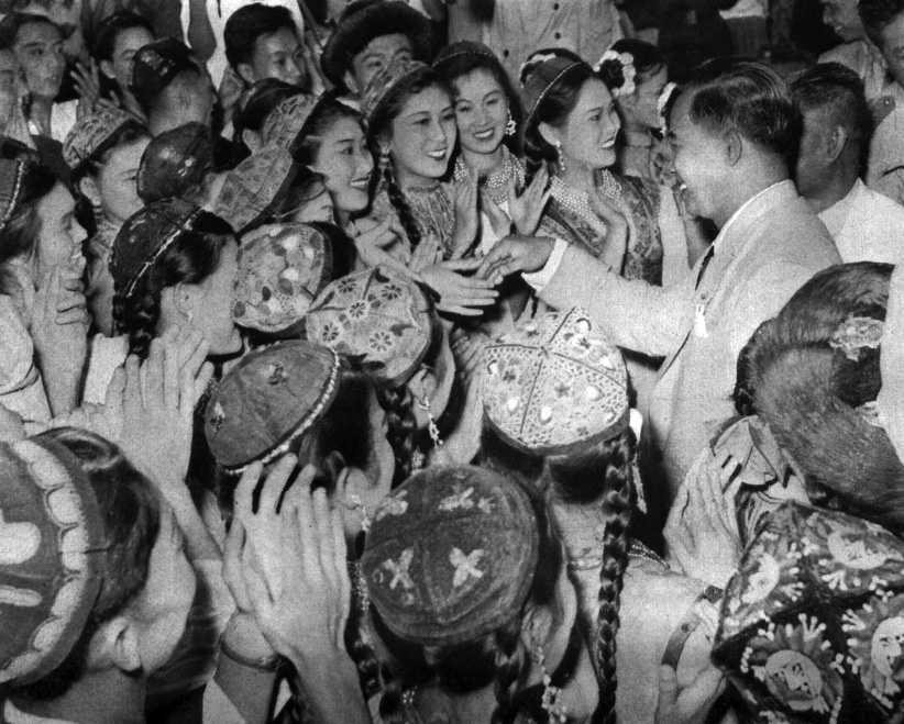 8月21日，北京举行盛大集会，欢迎来中国访问的老挝国王首相富马亲王。